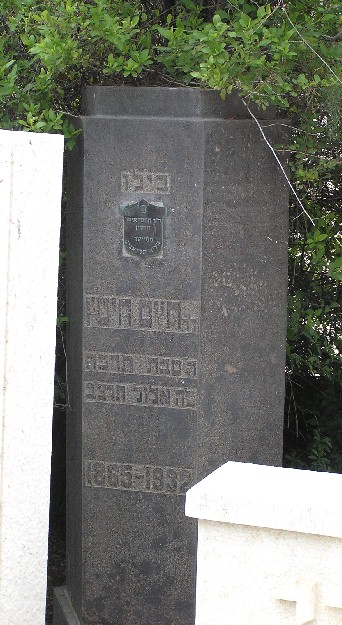 Tomb of Haim Hissin in Trumpeldor cemetery in Tel Aviv February 2006, by Eman